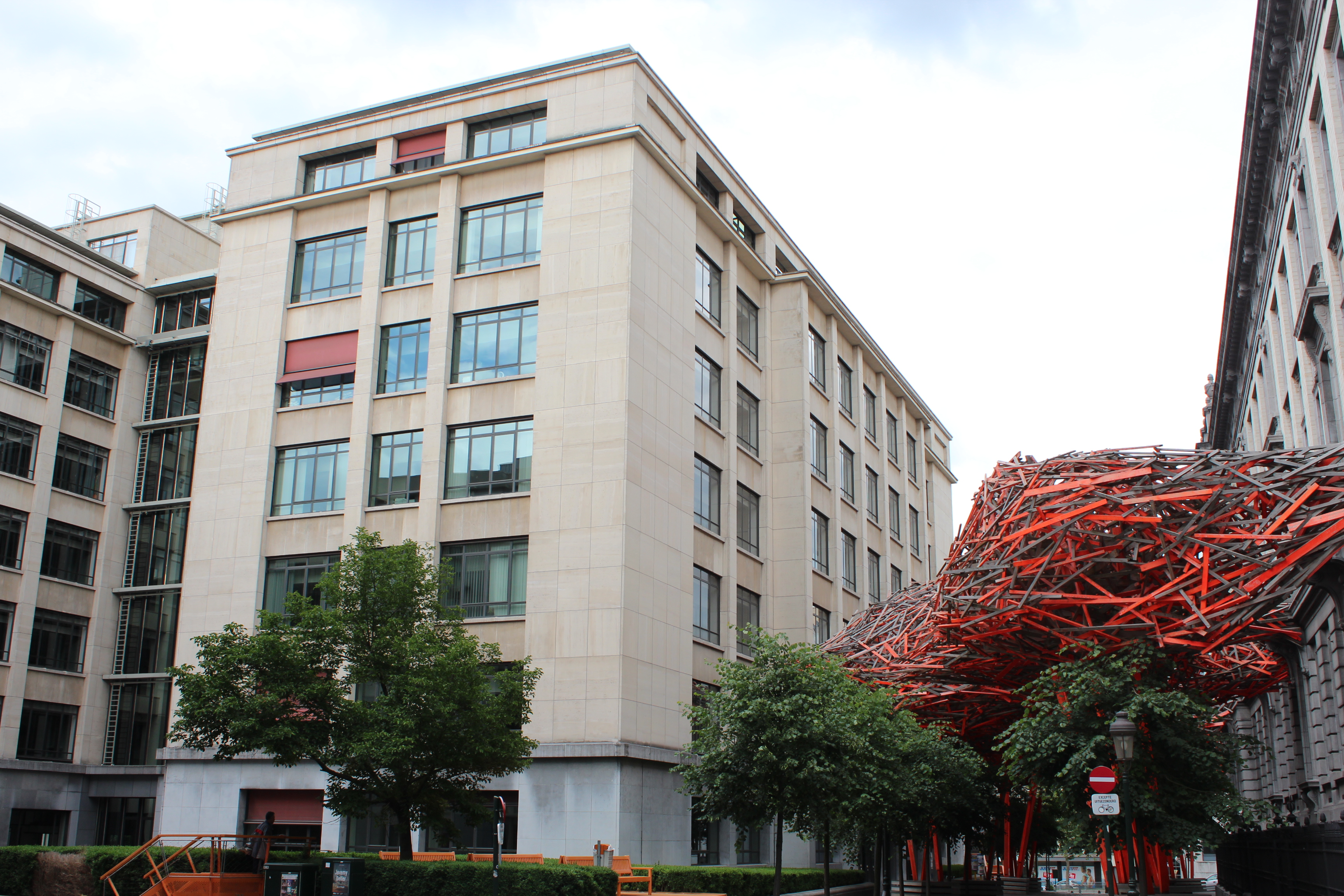 Former post cheque biuilding by Victor Bourgeois, built 1937-1946. Since 2002: Huis van de Vlaamse Volksvertegenwoordigers (administrative building of the Flemish Parliament)